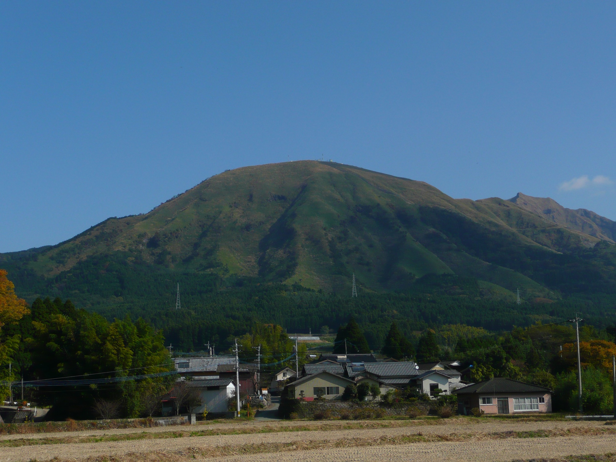 Yomineyama (Mt Aso - Minamiaso Village, Kumamoto, Japan)